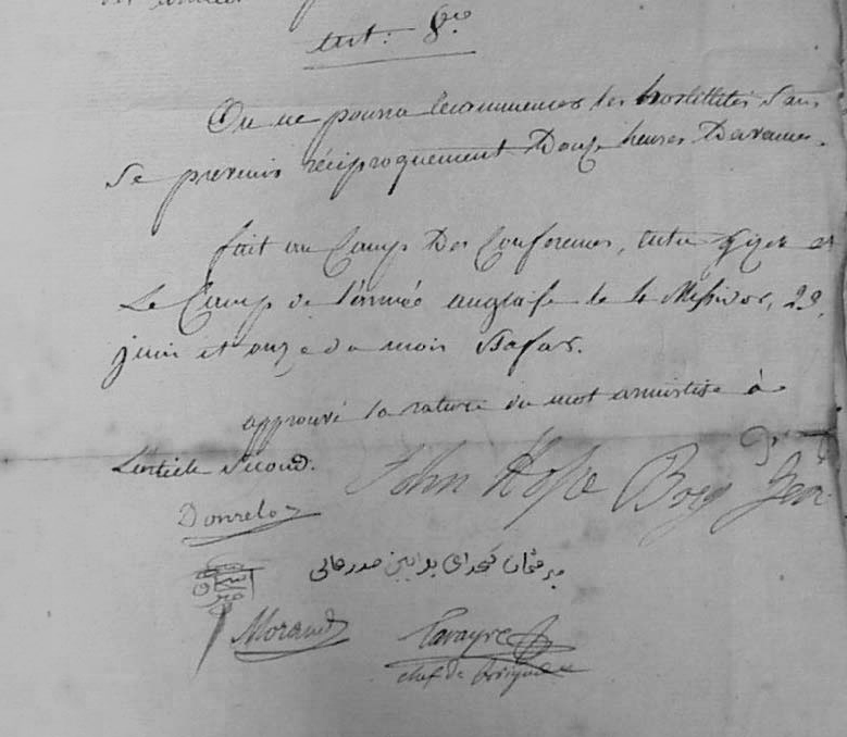 Signatures under the peace treaty of Cairo from 28. June 1801: The english General Sir John Hope, the represent of the turkey Vizir Osman Bey, Isaac Bey the represent of the Turkey force from Captain Pasha. The french General of Brigade François Donzelot and the French Chief of Brigade Jean de Tarayre